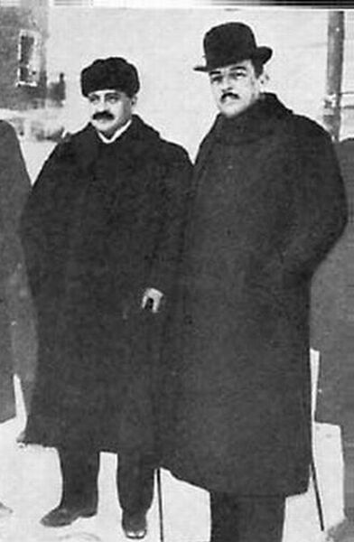 Original description: "TALAAT AND KUHLMANN. Kühlmann, now Foreign Minister, was in 1915 in Constantinople, acting as go-between in peace negotiations."